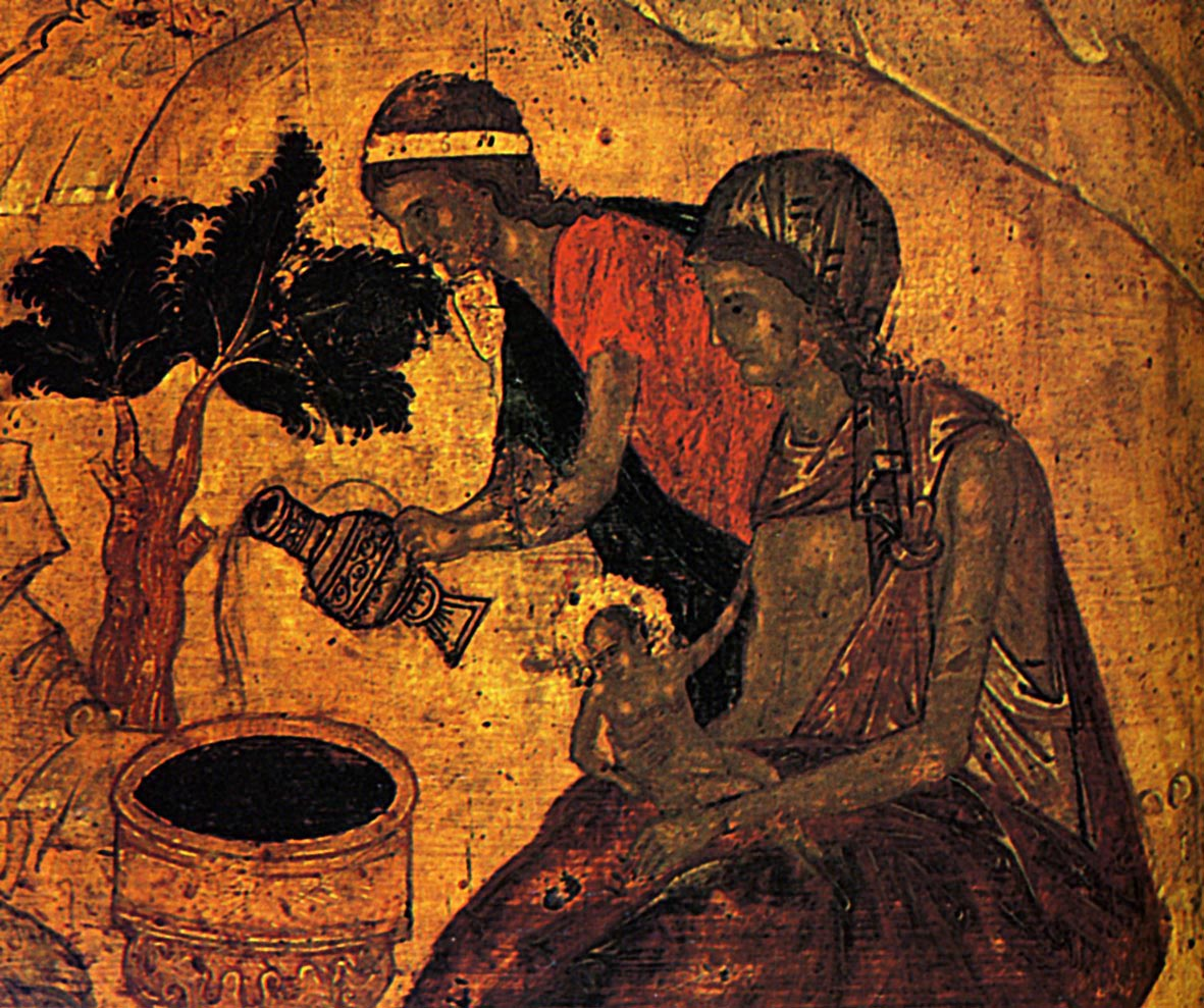 Midwife Salome (detail of the icon Nativity)